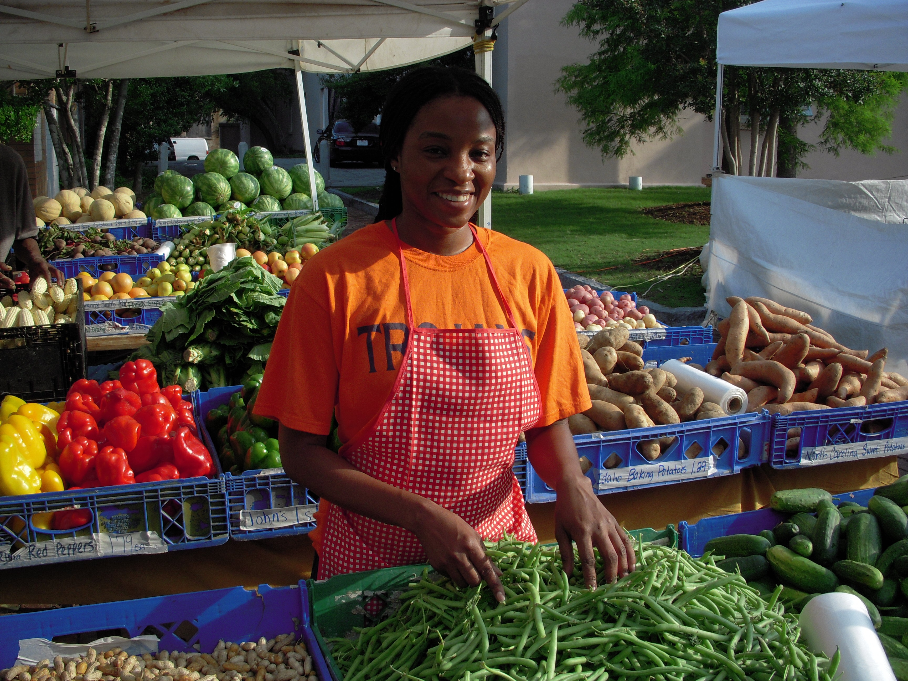 Woman at a United States Farmer's Market.